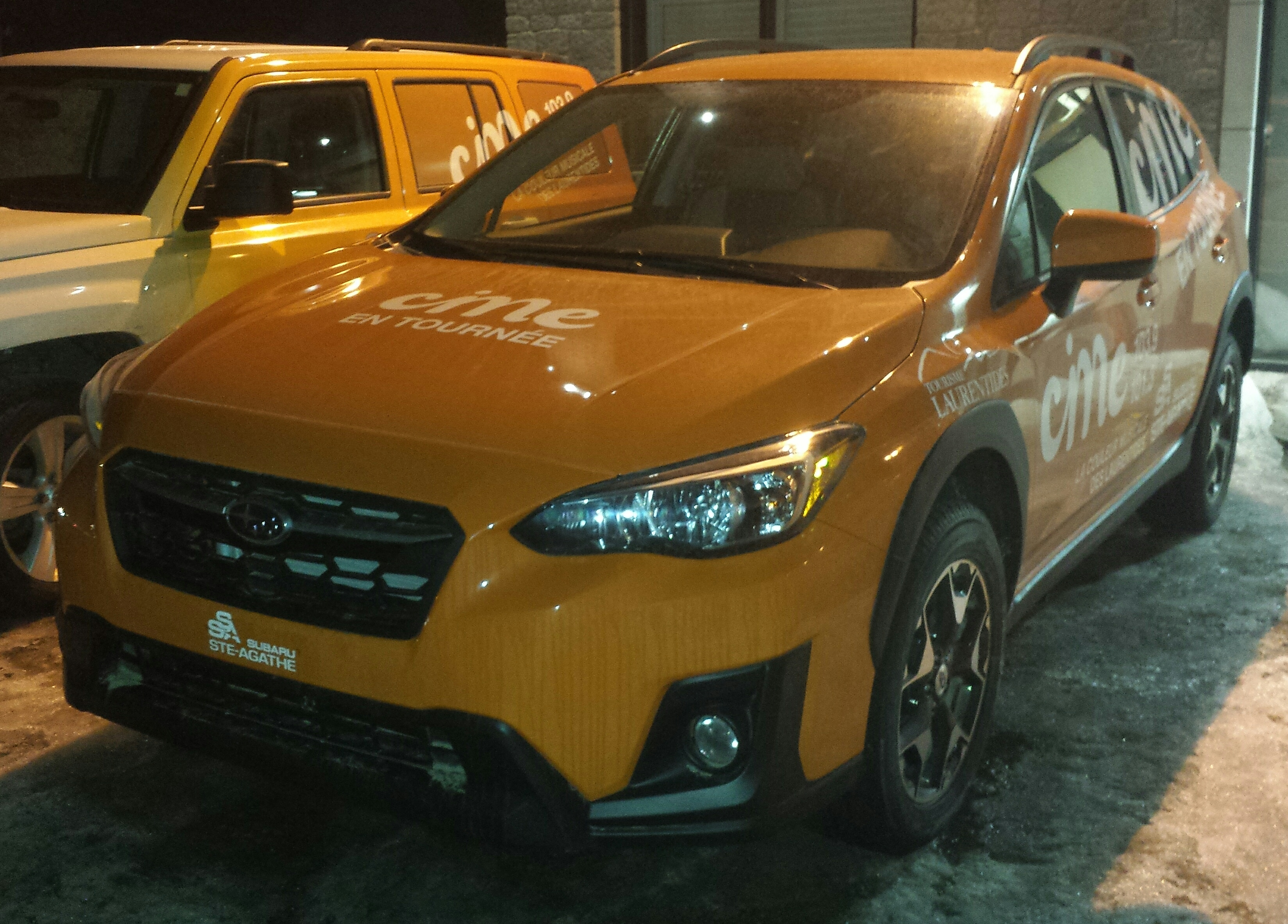 2018 Subaru Crosstrek CIME-FM photographed in Montréal, Québec, Canada at the station's studios parking lot.